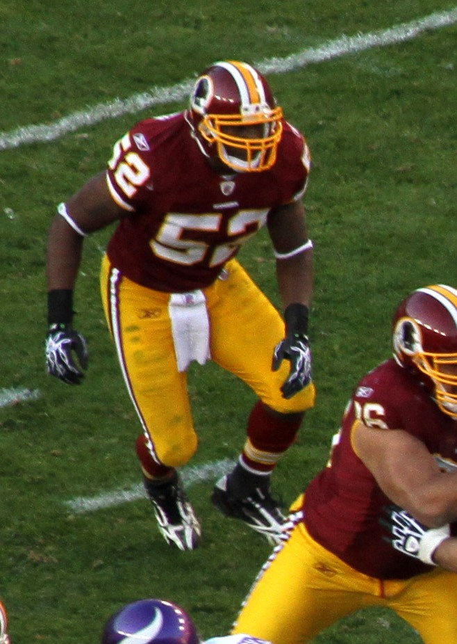 Rocky McIntosh in 2010 NFL season against the Minnesota Vikings